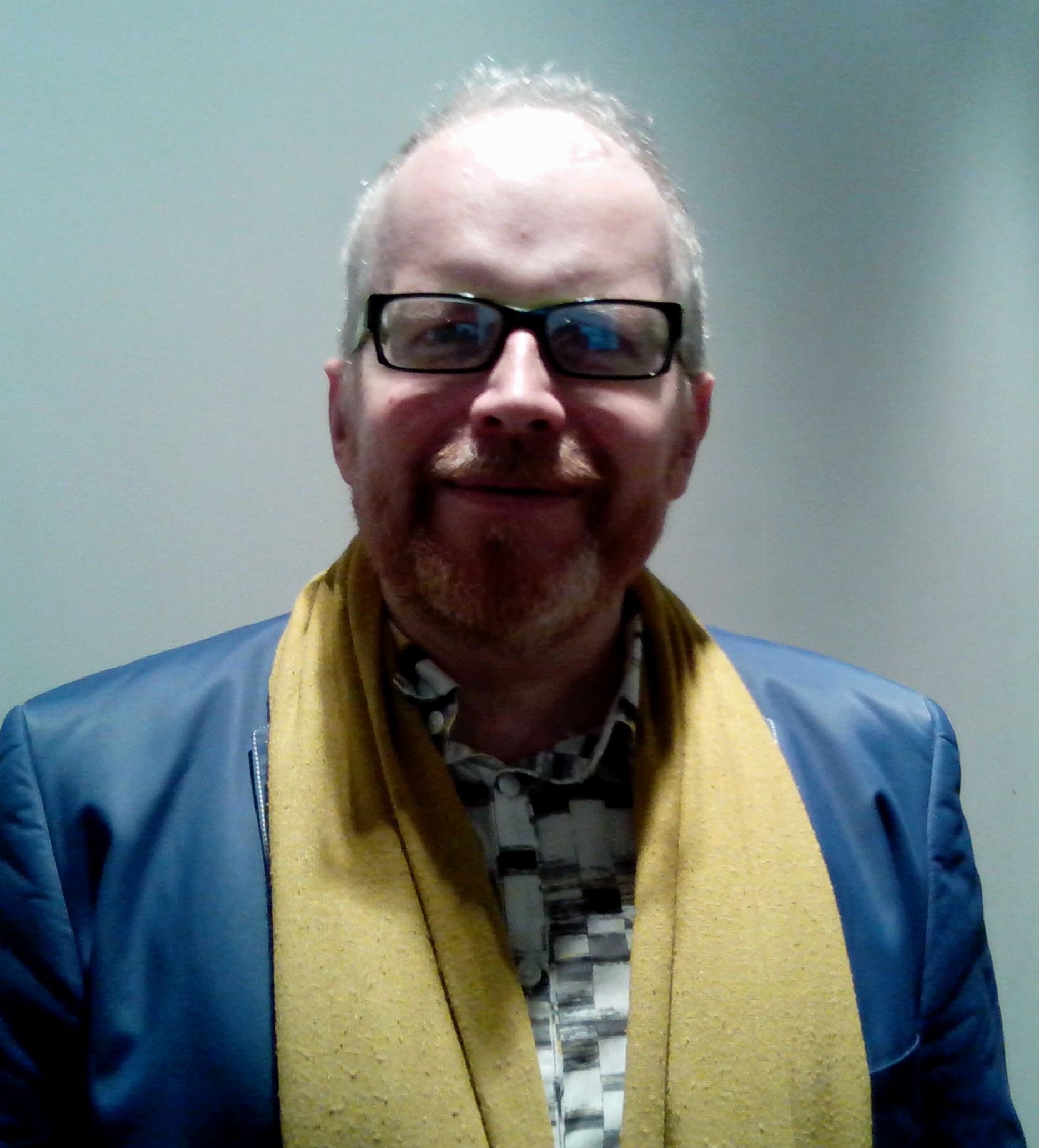 Polish political philosopher, cultural and social analyst, and civic activist Tomasz Kitliński